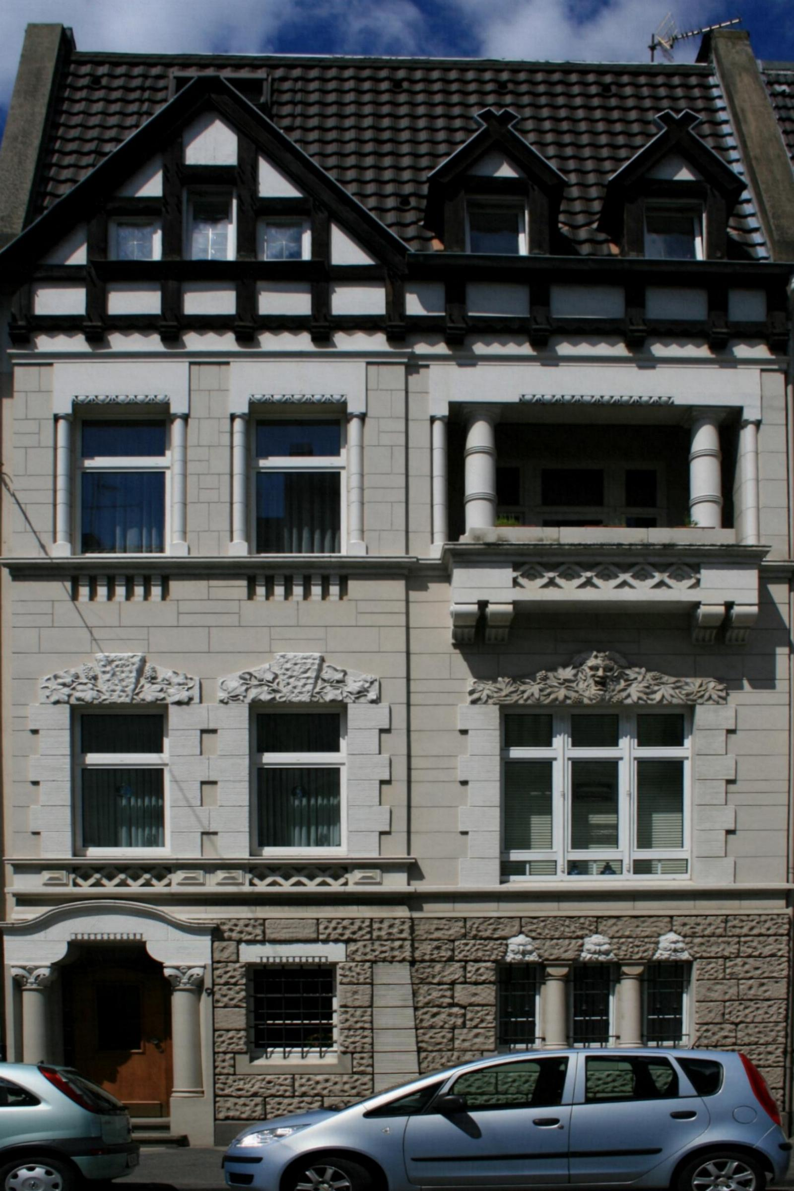 Cultural heritage monument No. G 039 in Mönchengladbach